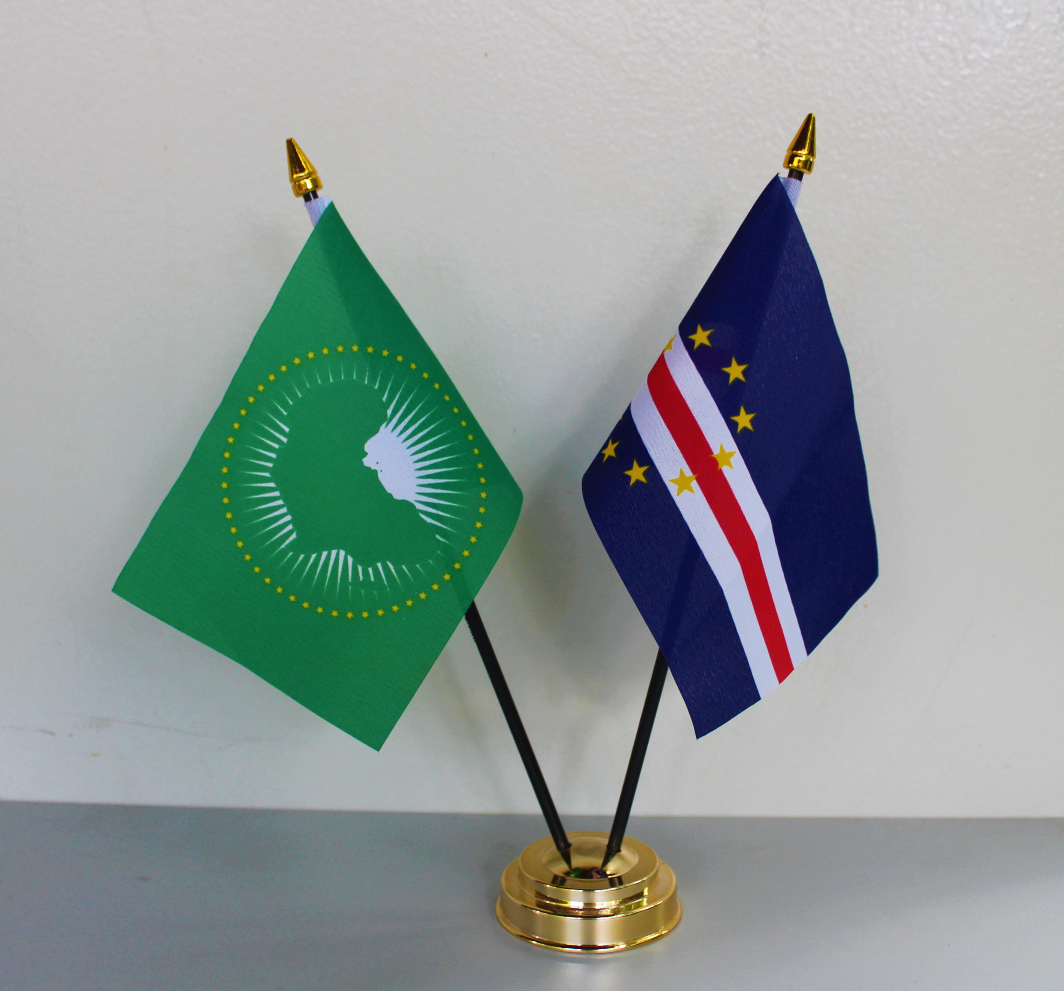 Flag of Cape Verde.